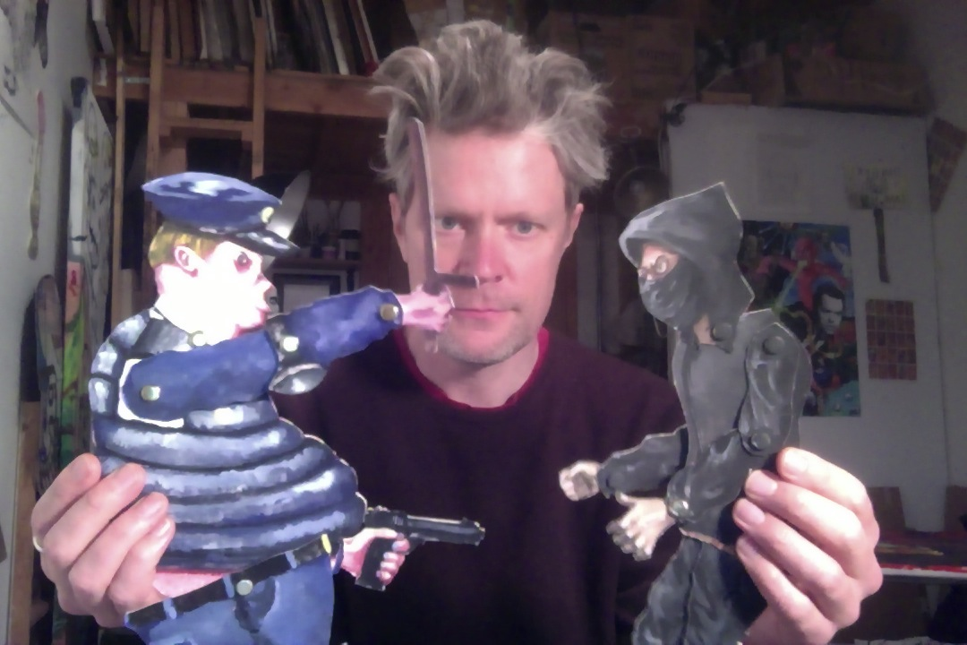 The Artist in 2015 with puppets